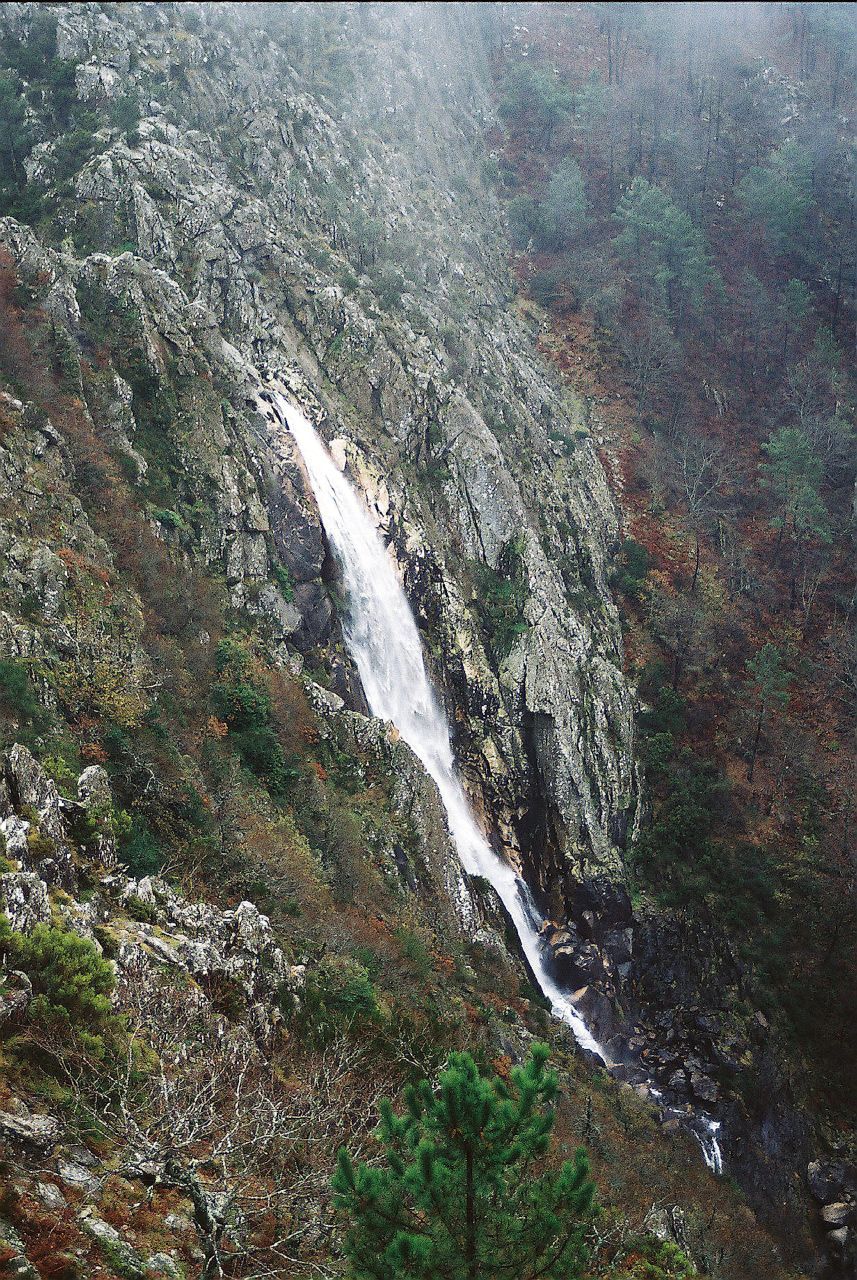 See where this picture was taken. [?]